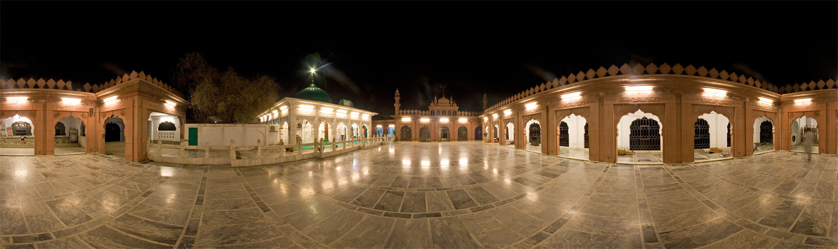 Tomb of Shah Jamal This is a photo of a monument in Pakistan identified as the PB-P-112